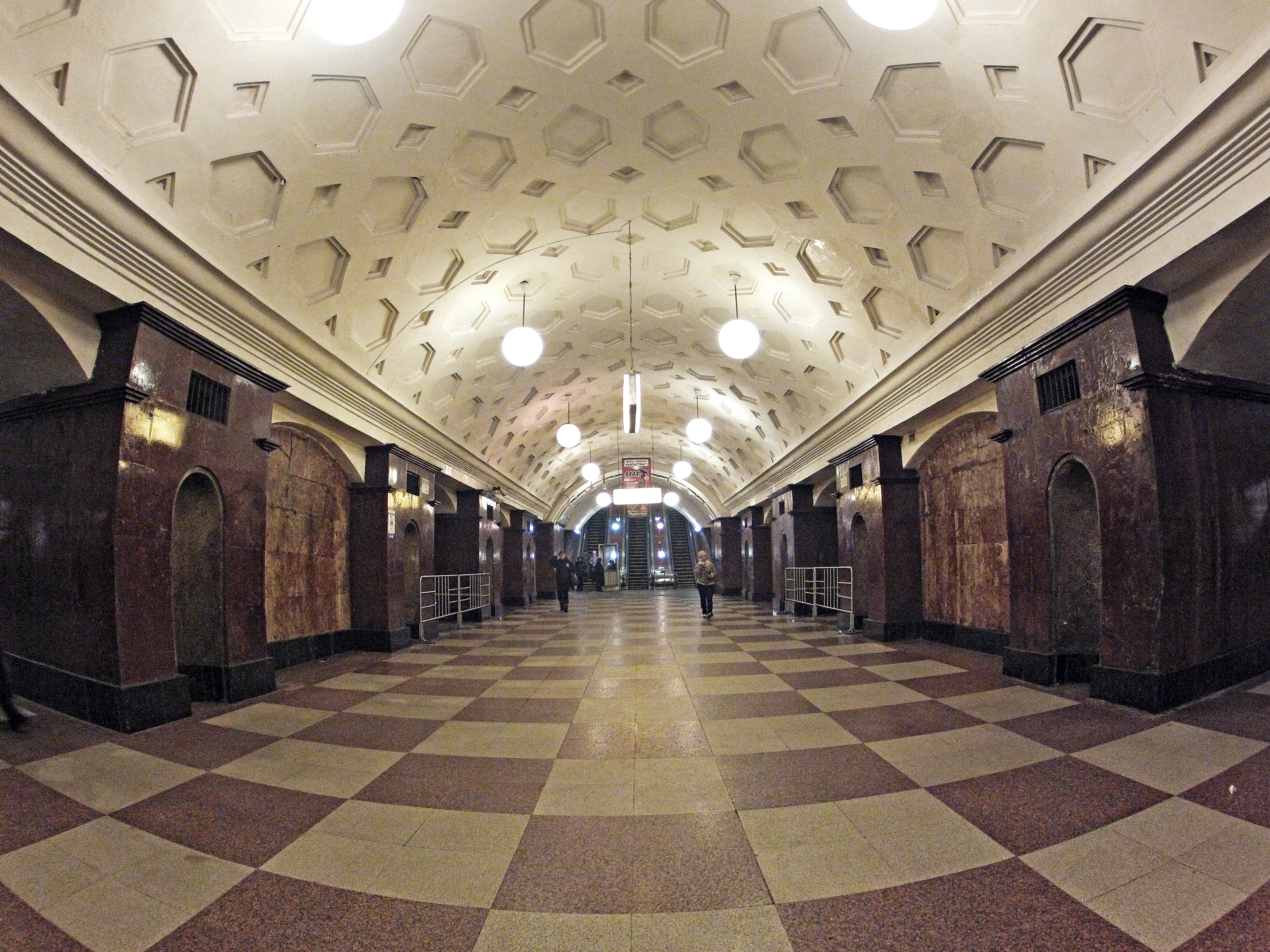 Metro Station Krasnye vorota(Red Gates)